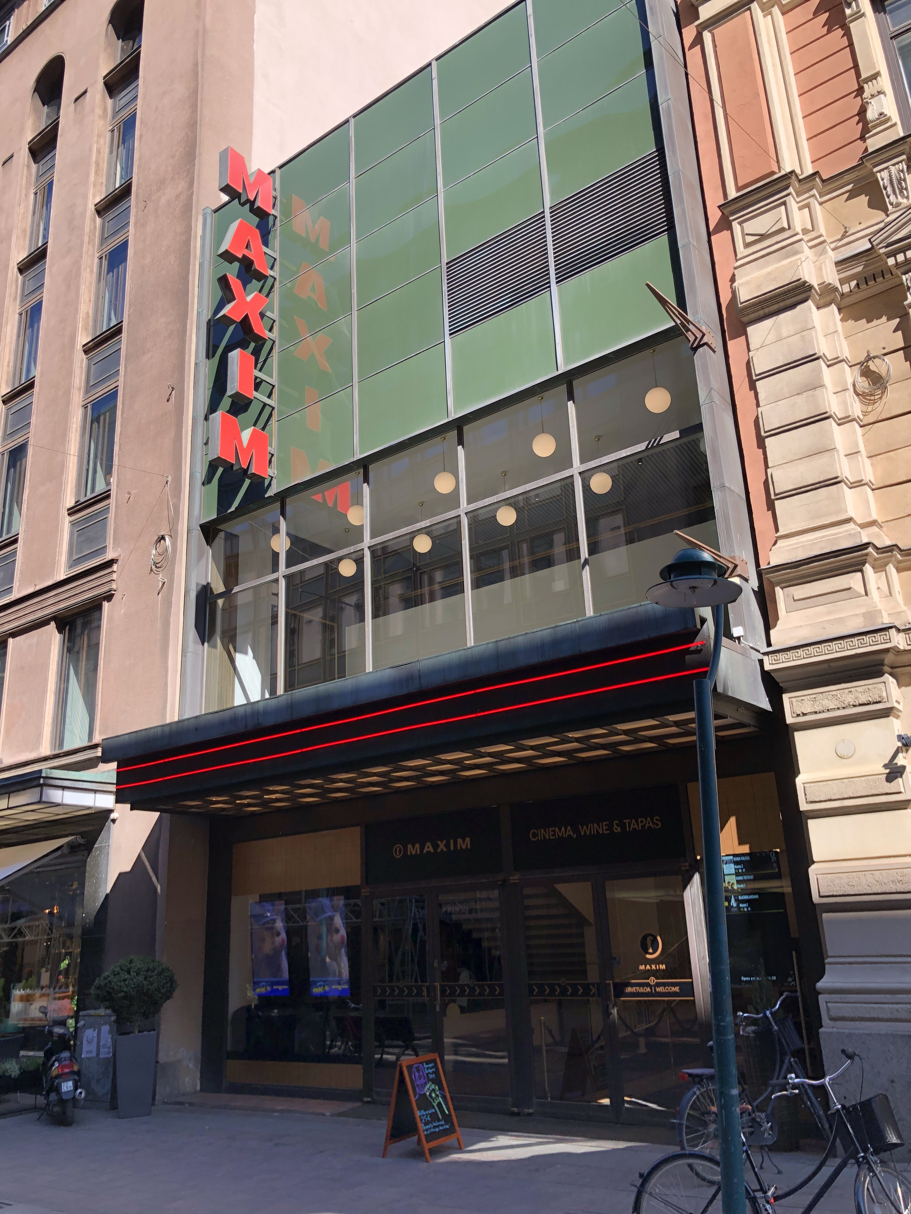 Maxim film theater in May 2019 in Kluuvikatu Helsinki